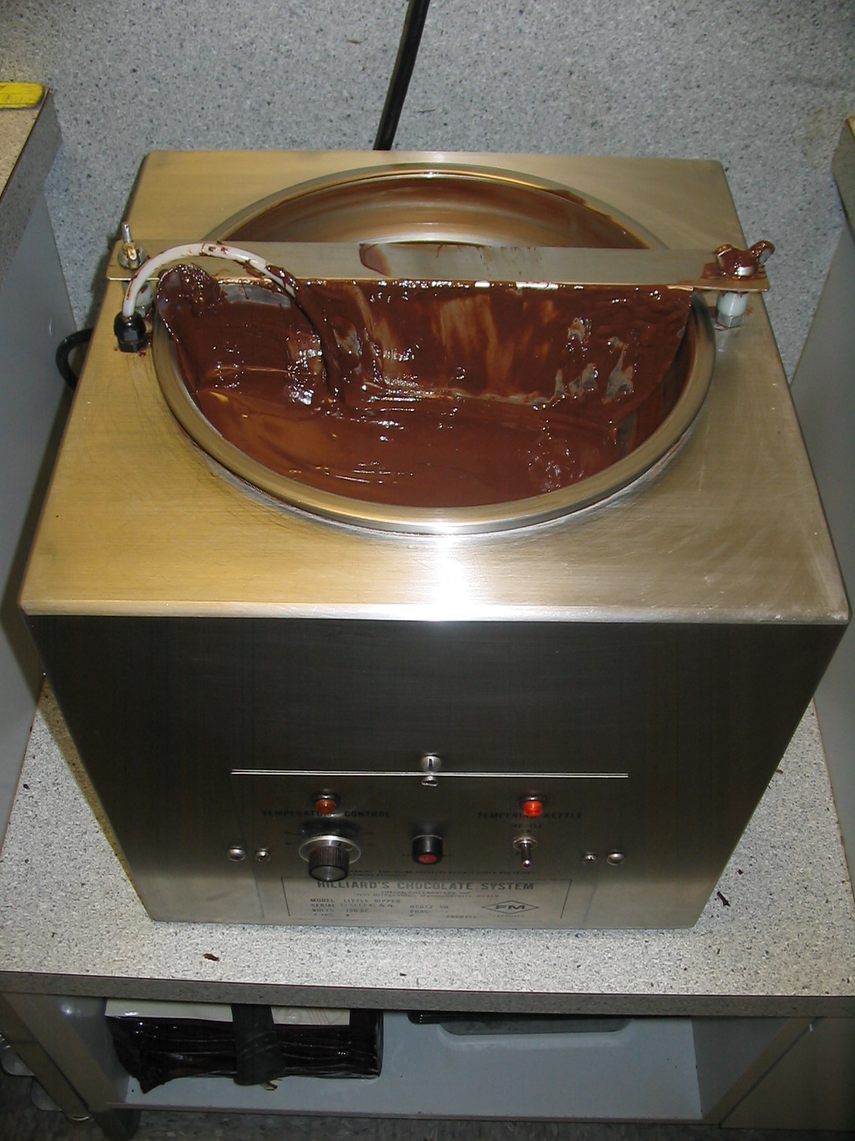 This is the chocolate tempering machine used for our couveture chocolate. It is filled with Callebaut semi-sweet chocolate.